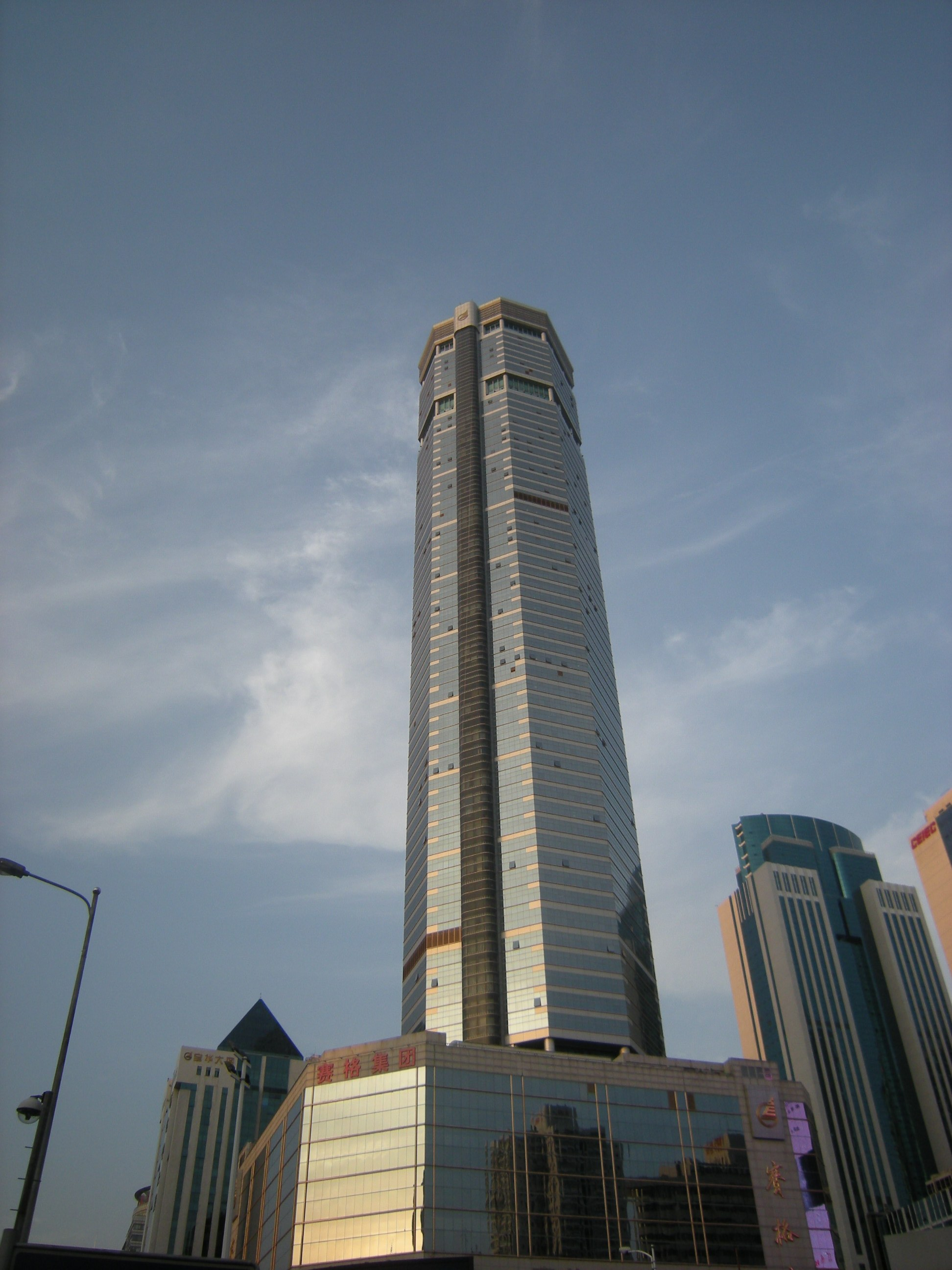 SEG Plaza Of Shen Zhen